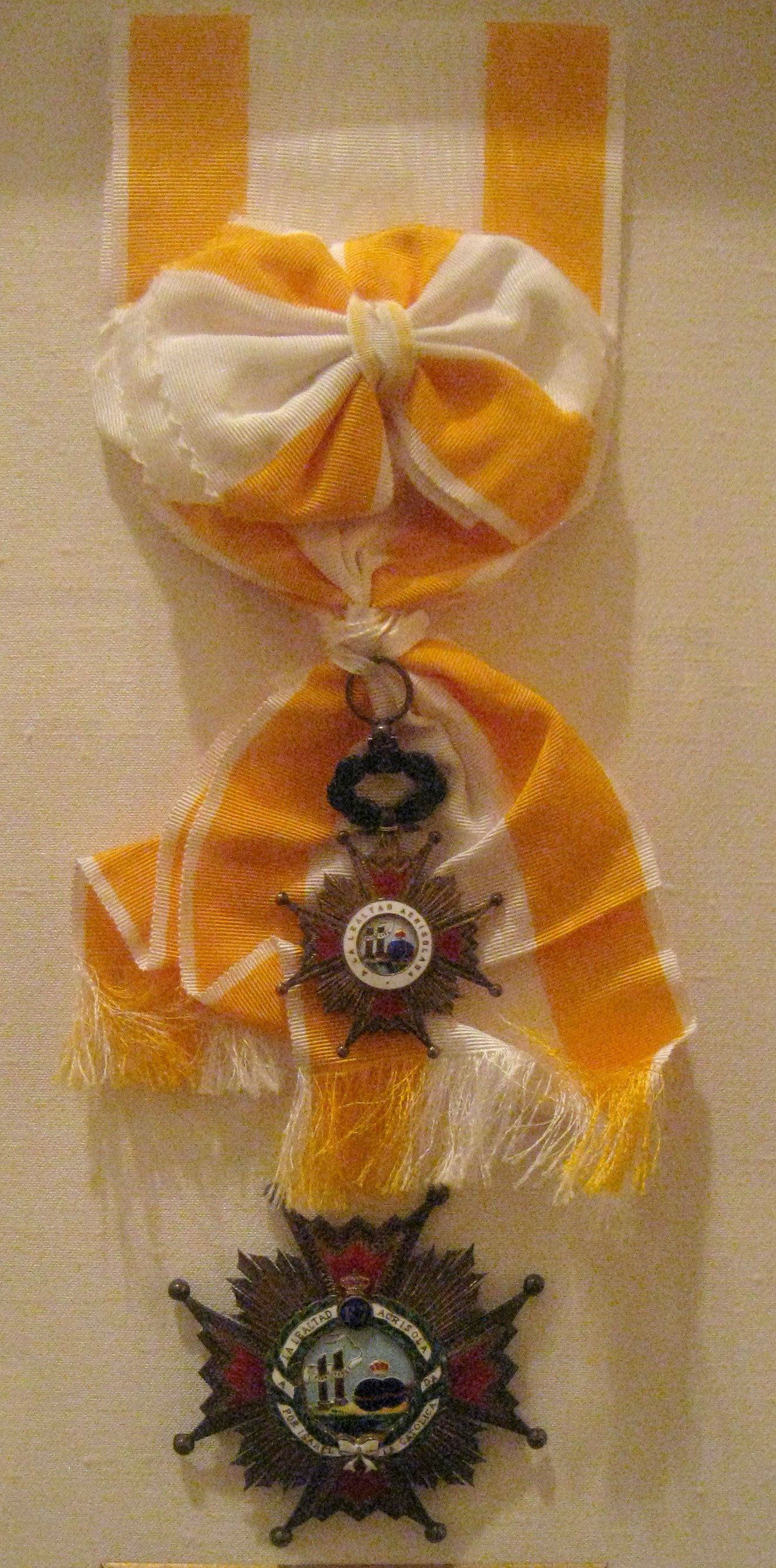 Grand Cross of the Order of Isabella the Catholic (cropped)